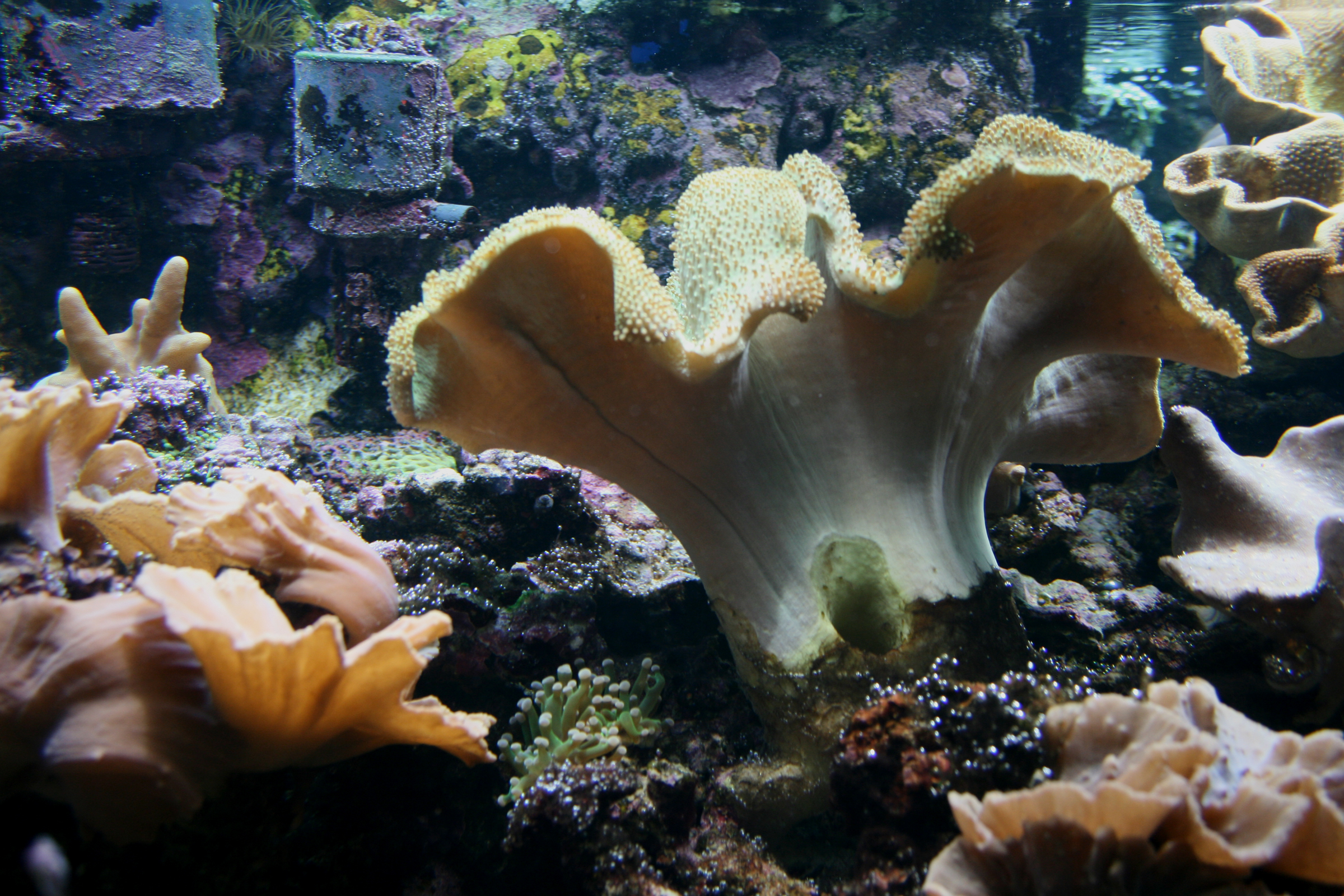 Sea coral (Sarcophython glaucum) on Prague sea aquarium, Czech Republic